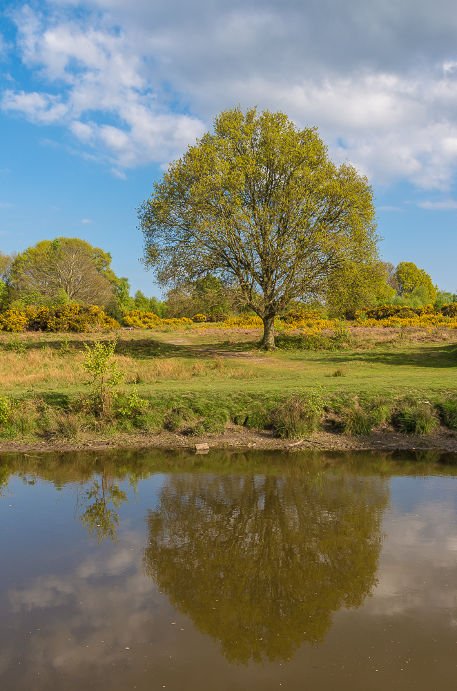 TQ2018153628 from TQ 20165 53633